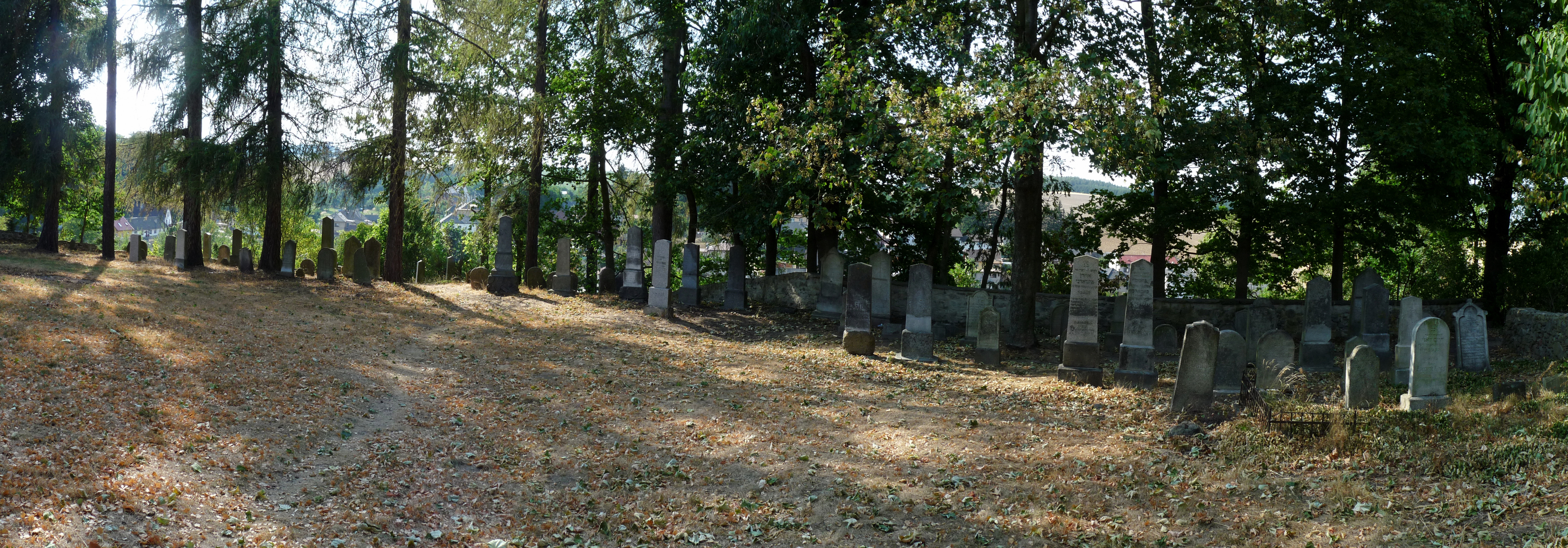 Gravestones in the Jewish cemetery in Puklice, Jihlava District, Vysočina Region, Czech Republic.